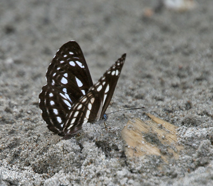 Sullied Sailor Neptis soma at Jayanti in Buxa Tiger Reserve in Jalpaiguri district of West Bengal, India.